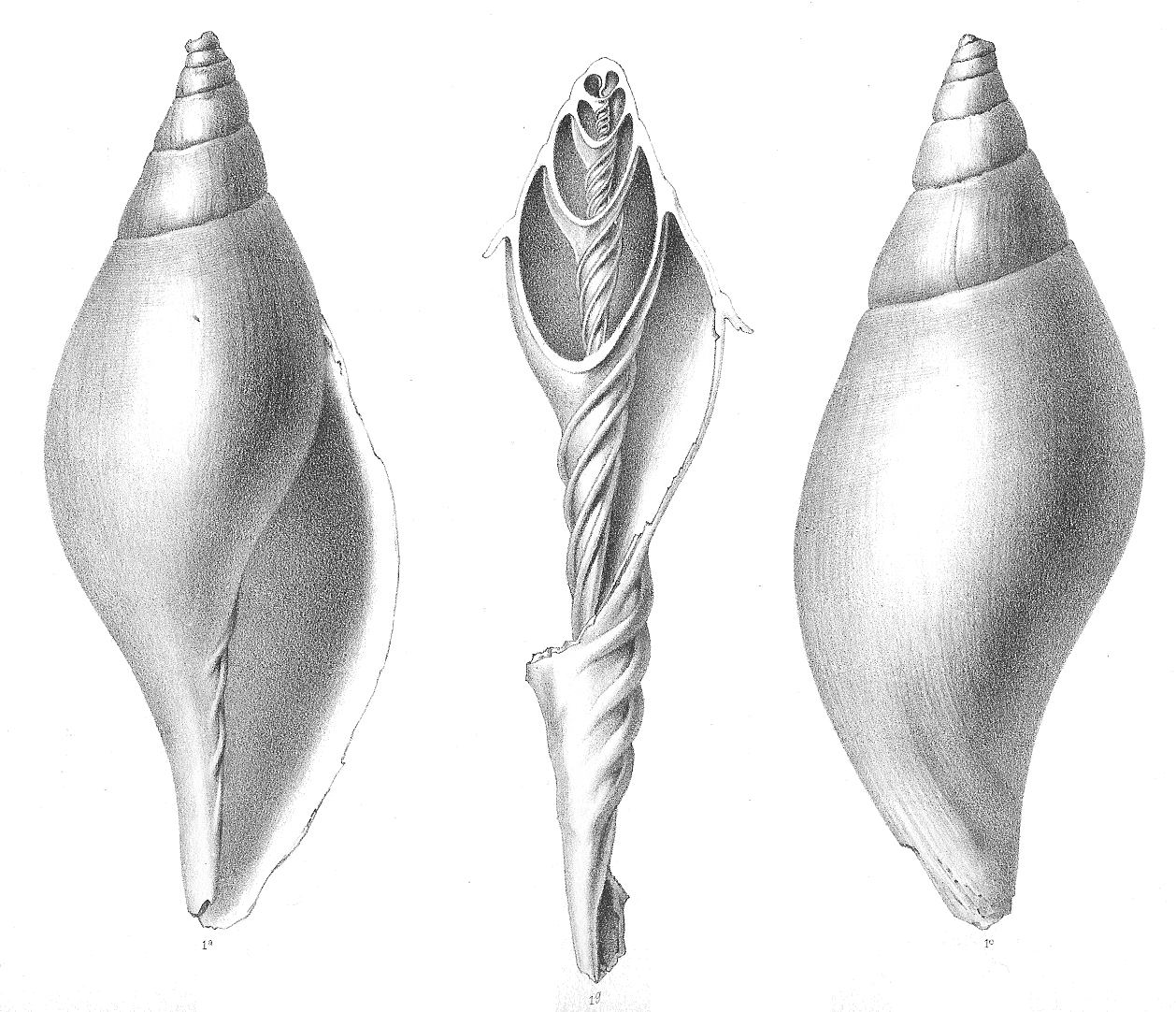 Scaphella lamberti - Fossil gastropod from Pliocene deposits near Antwerp (Belgium)